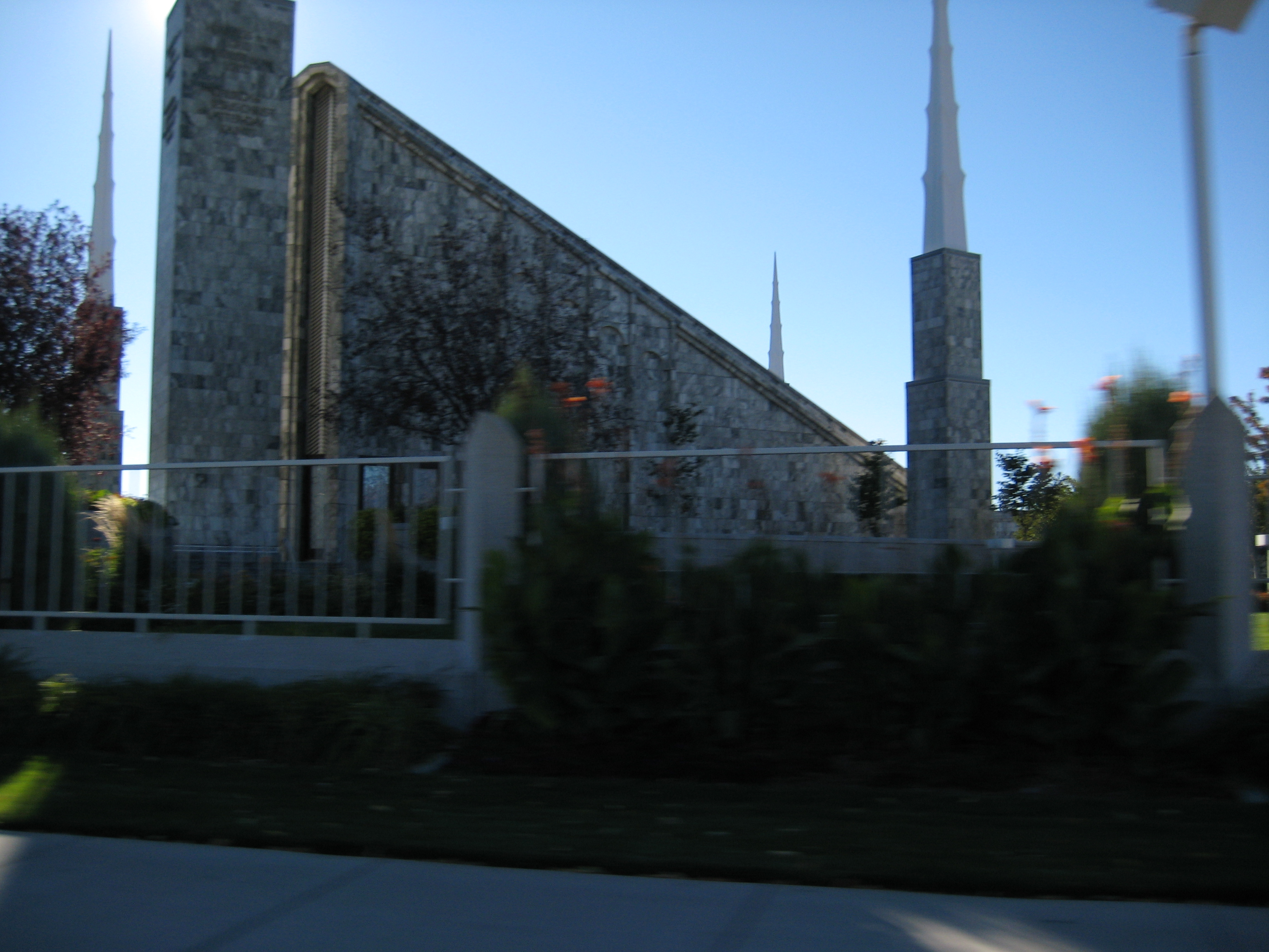 The Boise Idaho Temple of The Church of Jesus Christ of Latter-day Saints.